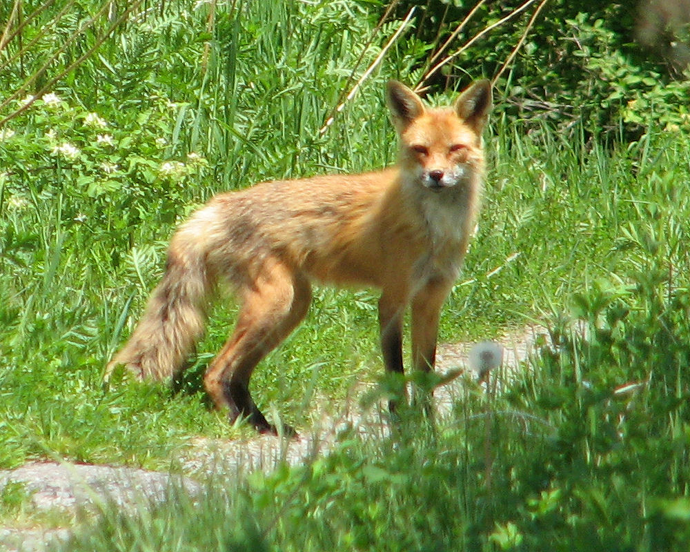 American Red Fox (Vulpes vulpes fulvus), near Rideau River, Ottawa, Ontario